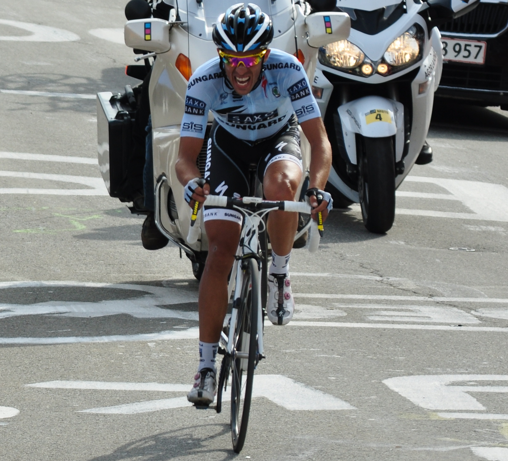 Alberto Contador approaches the finish line to stage 19 of the 2011 Tour de France. He finished the day third.